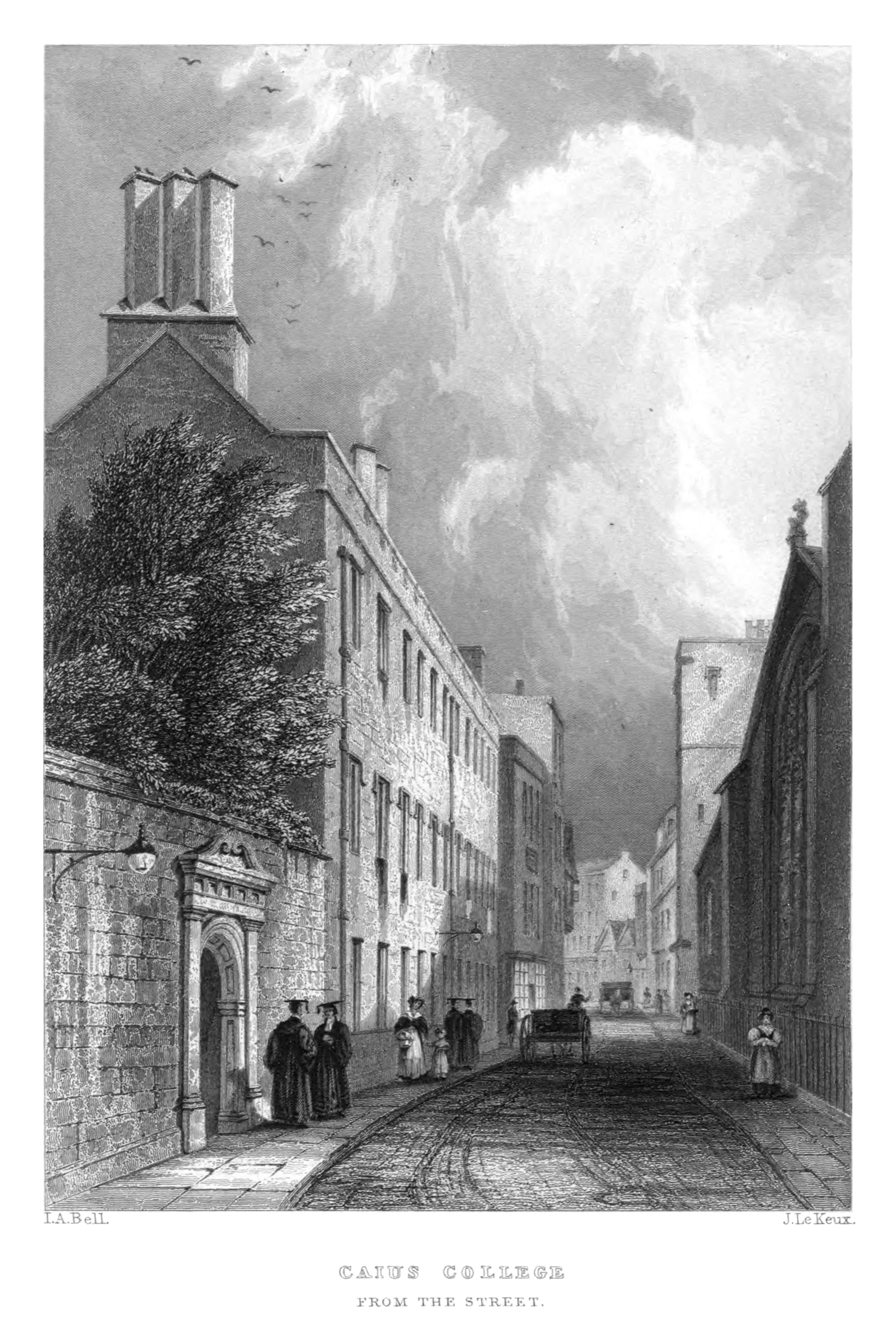 View of Gonville and Caius College, Cambridge, from Trinity Street.